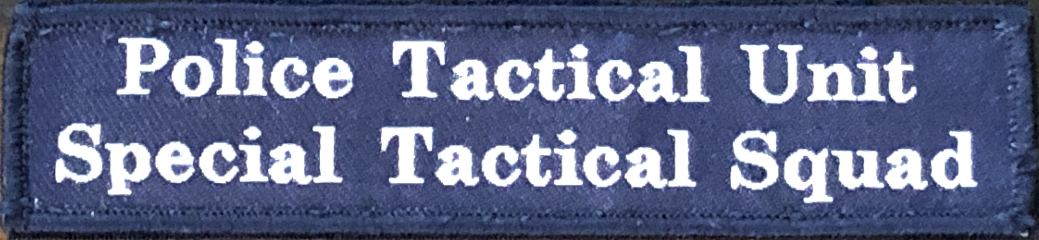 Official patch of the PTU's STS unit.